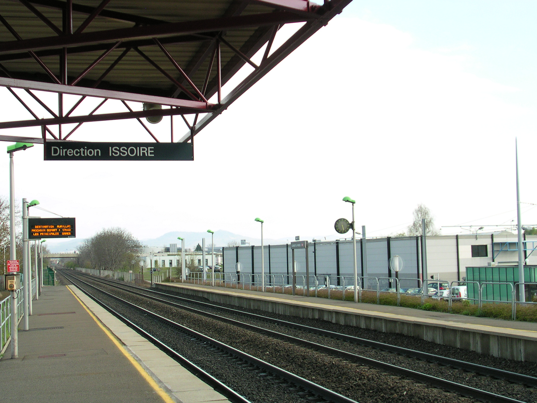 View from platform toward Issoire at Clermont-La Pardieu SNCF railway station, Clermont-Ferrand.